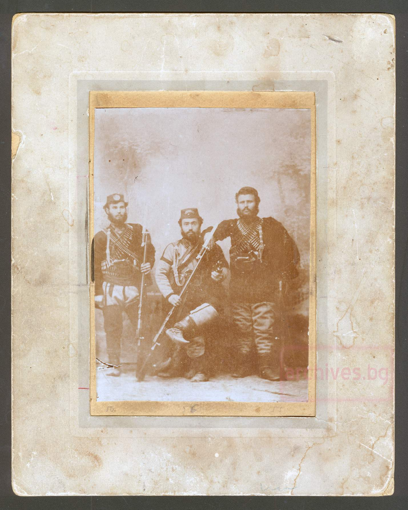 bulgarian revolutionary/ies